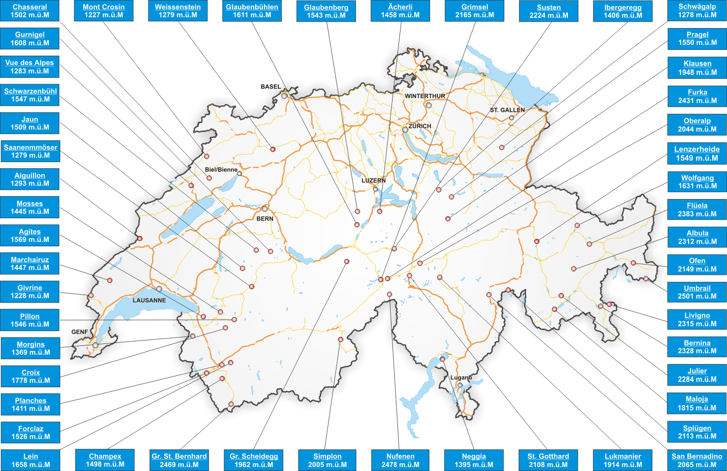 Mountain passes of Switzerland with an elevation of 1200 m and higher